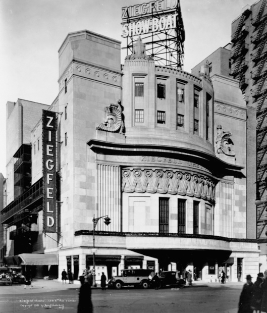 Photograph of the Ziegfeld Theatre, 1341 6th Avenue, New York City. Copyrighted in 1931, but the sign Show Boat indicates that the photograph was taken December 27, 1927 – May 4, 1929, during the run of that show; more information here